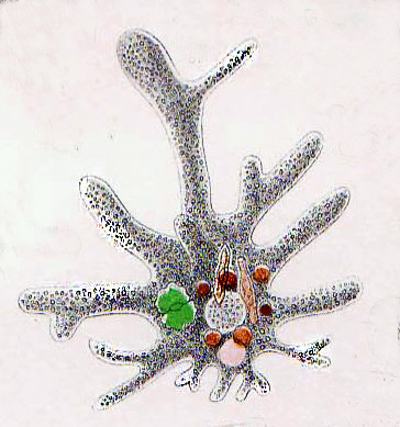 An illustration of Amoeba proteus, by Joseph Leidy, 1879